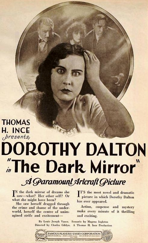 Advertisement for the American drama film The Dark Mirror (1920) with Dorothy Dalton, on page 3749 of the May 1, 1920 Motion Picture News.